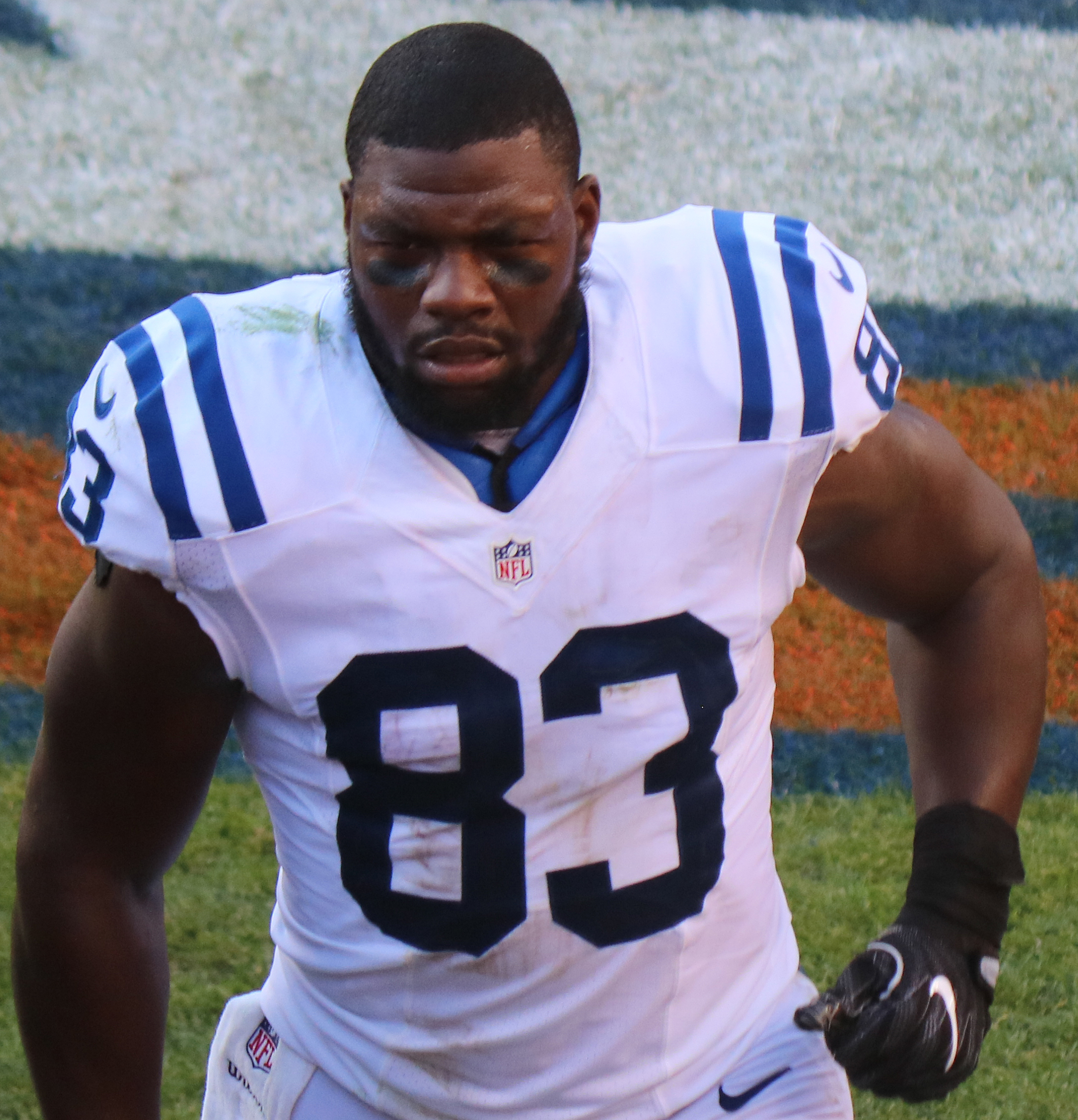 Dwayne Allen, a player on the National Football League.